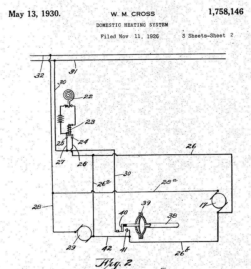 This is a patent drawing from one of the patents involved in The Mercoid Cases